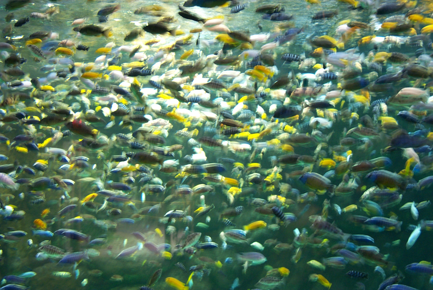 Description at en.wiki: Cichlids of Lake Malawi, photographed by User:Pburka at the Toronto Zoo on April 30, 2003